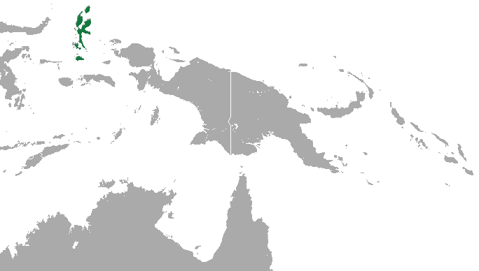 Masked Flying Fox (Pteropus personatus) range